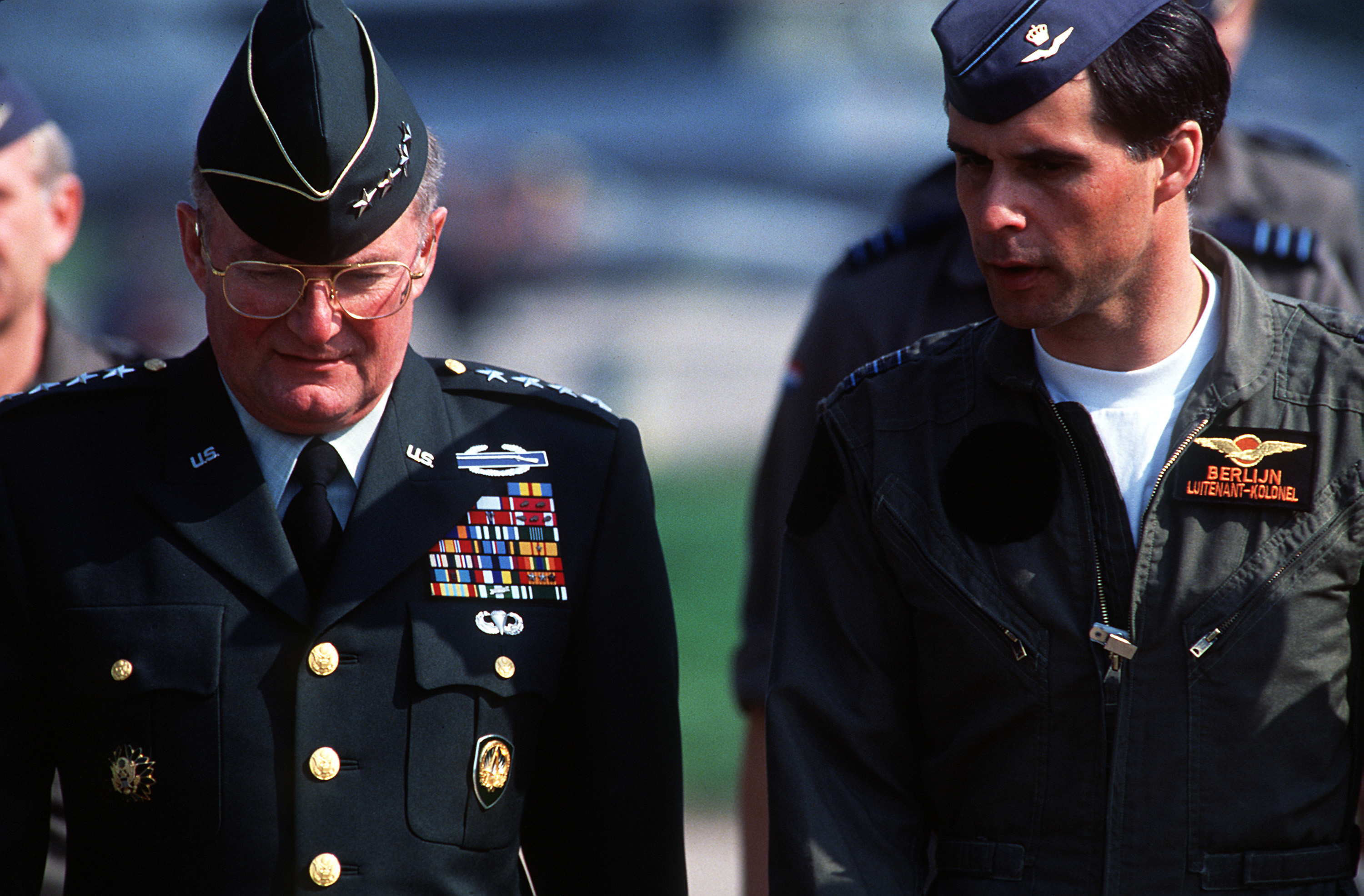 Gen. John M. Shalikashvili, Supreme Allied Commander/Europe, and Lt. Col. Berlijn, Dutch operations commander, converse during Shalikashvili's visit to the base during Operation Deny Flight, the enforcement of a United Nations-sanctioned no-fly zone over Bosnia and Herzegovina.